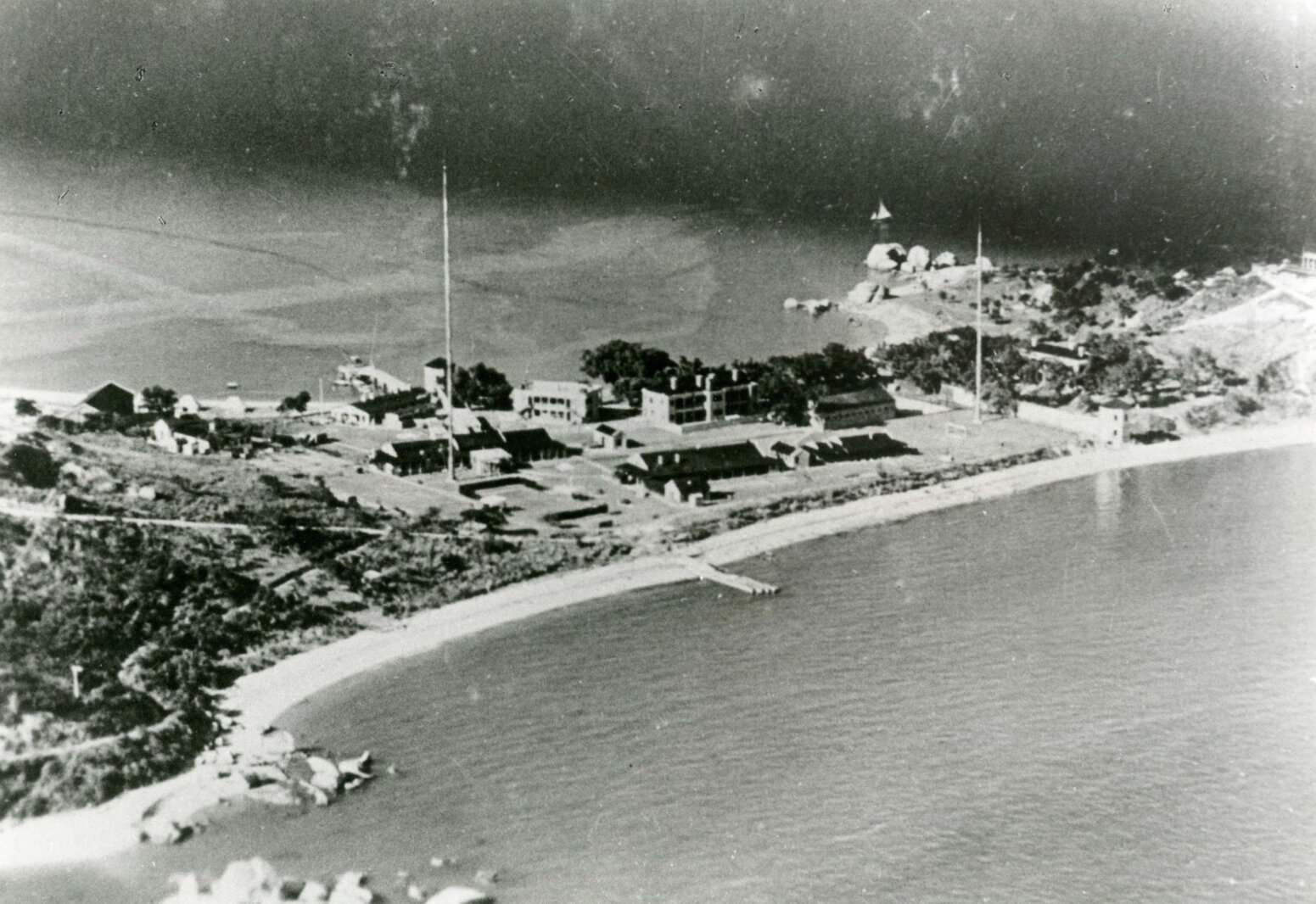 Stonecutters Island 1930s